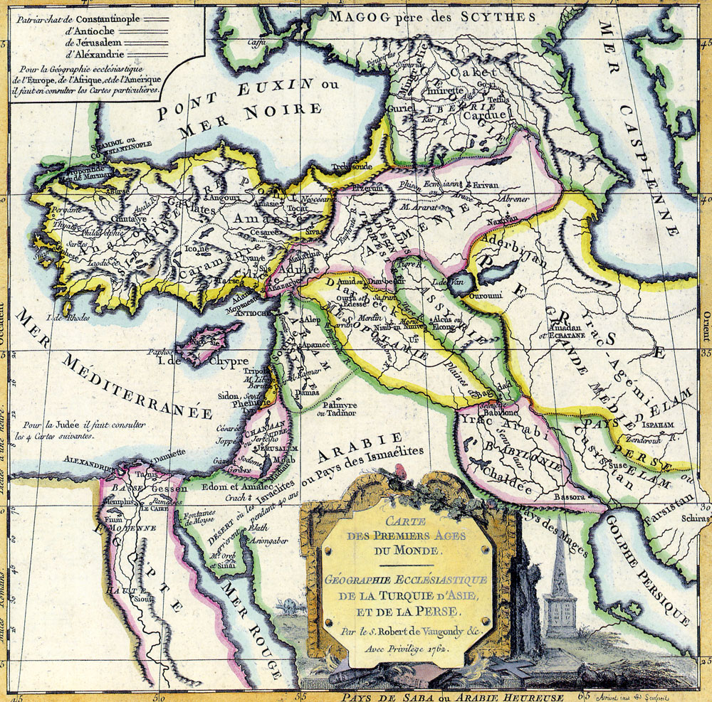 New Pocket Atlas, Robert de Vaugondy, 1762